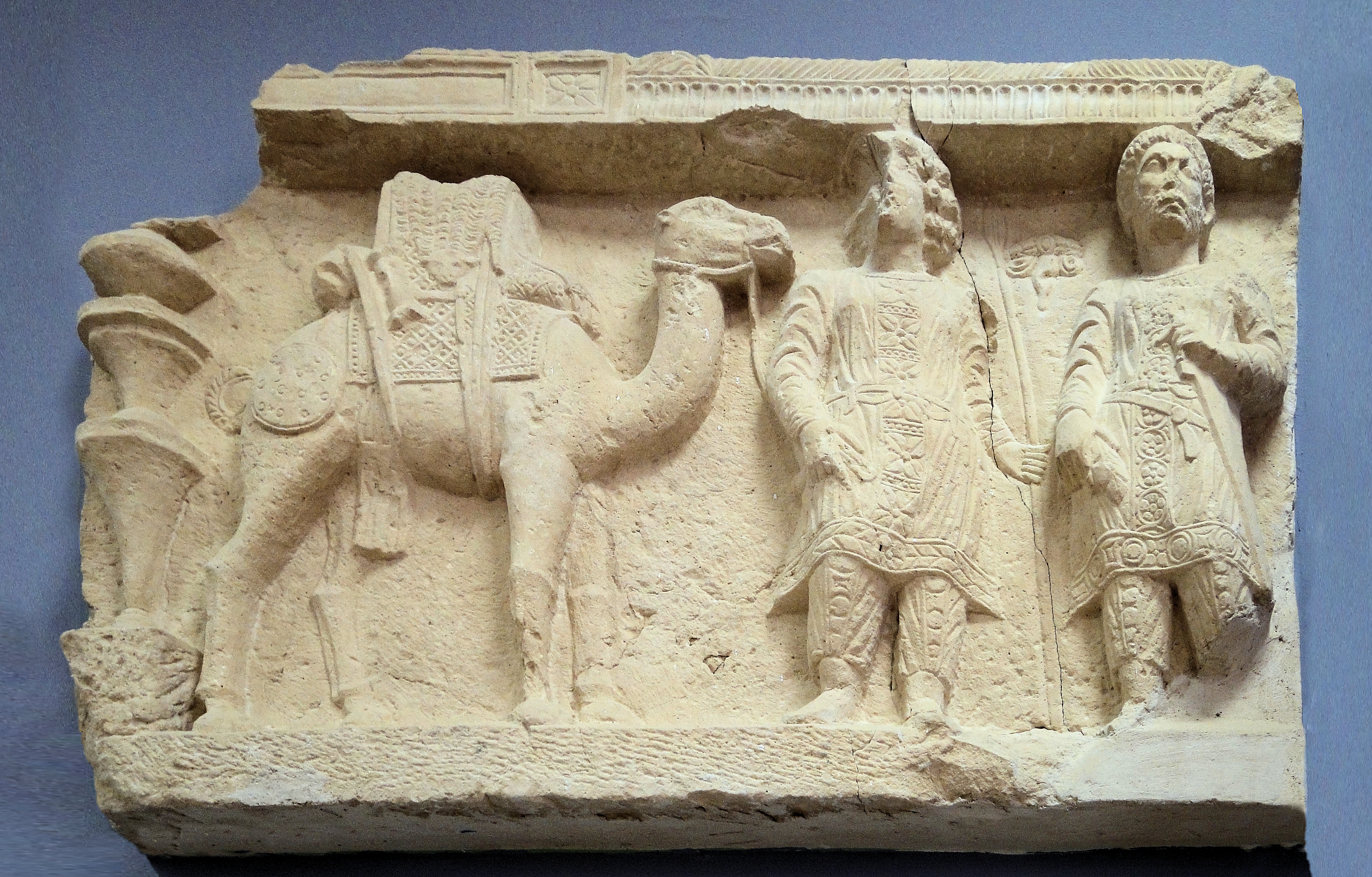 Palmyra caravan